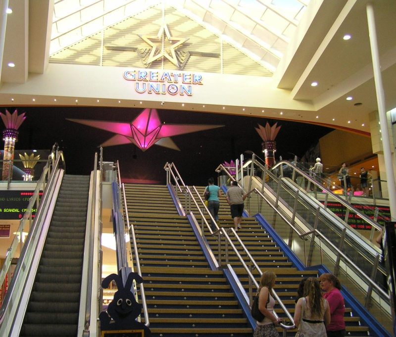 Westfield marion - cinema steps